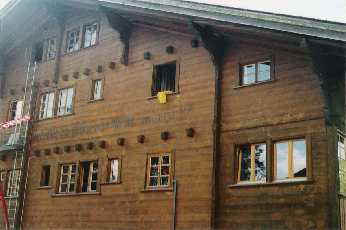 Depicted place: Our Chalet